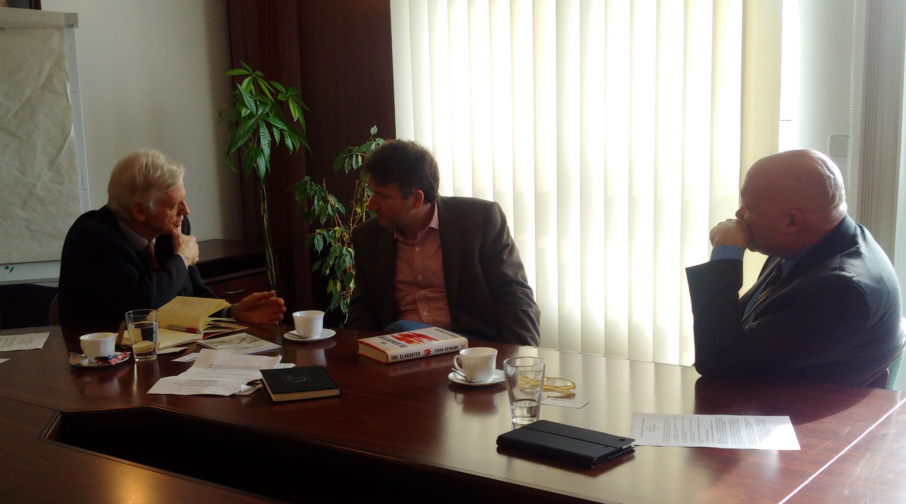 Meeting: Canadian politician David Kilgour and investigative journalist Ethan Gutmann talk to President of the Czech Medical Chamber MUDr. Milan Kubek.